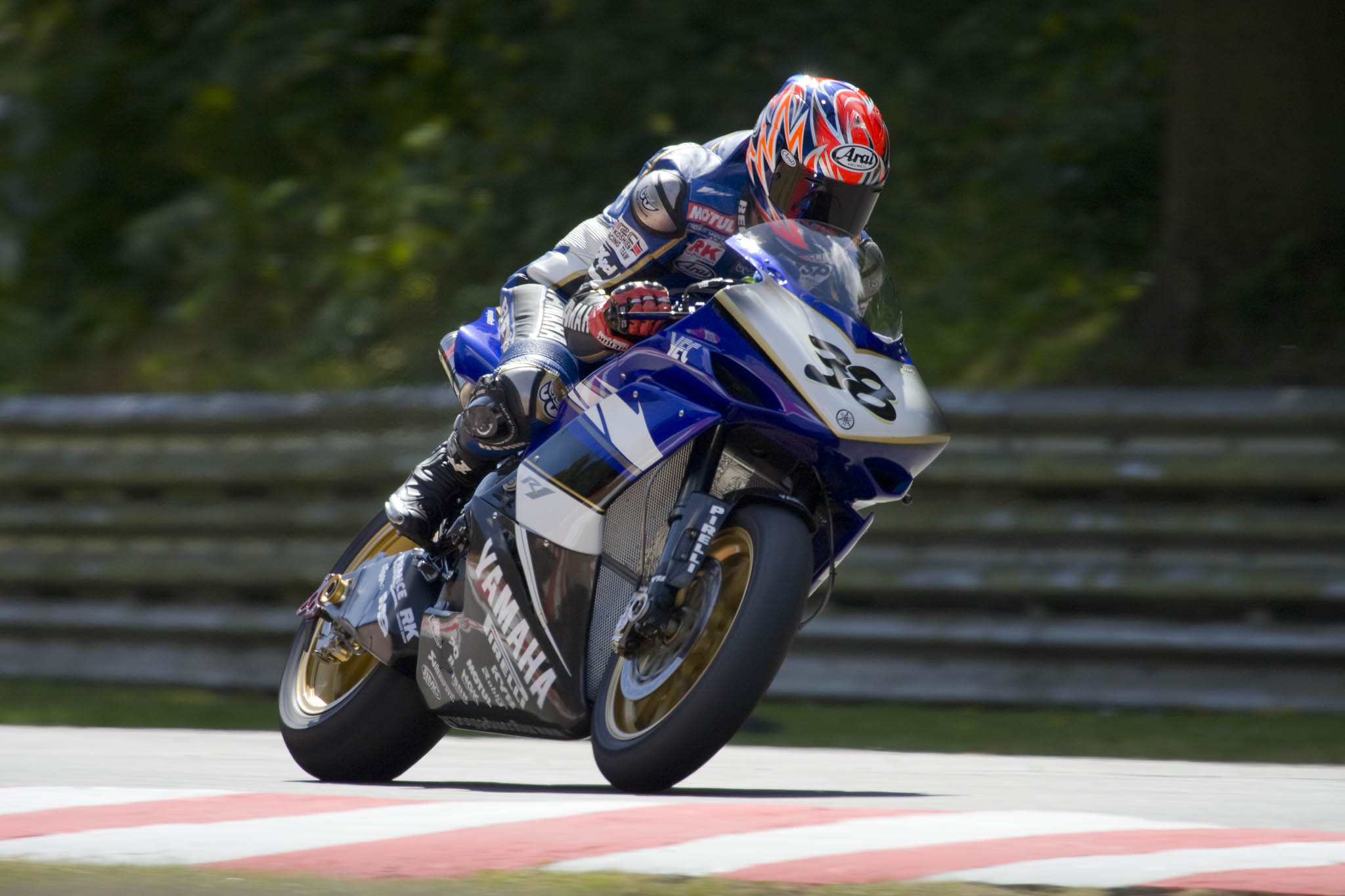 Brands Hatch World Superbike Meeting August 2008 Practice Day. Exiting Stirlings.